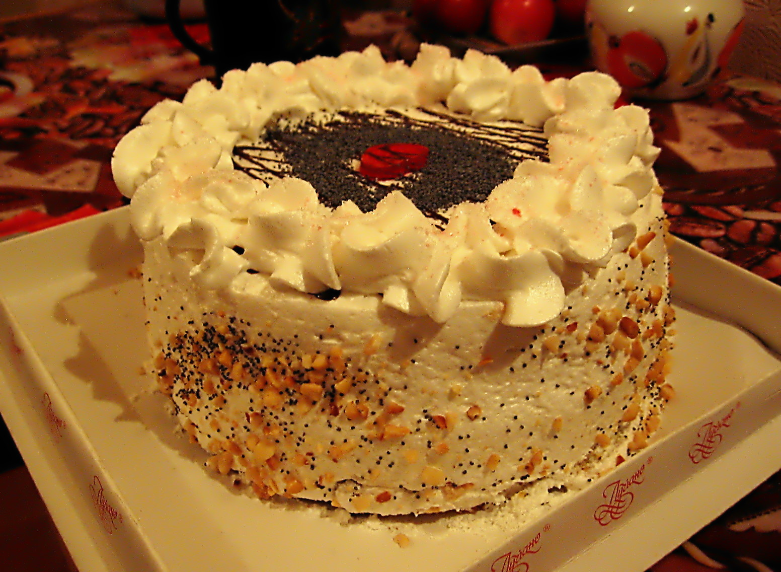 Birthday cake (torte)